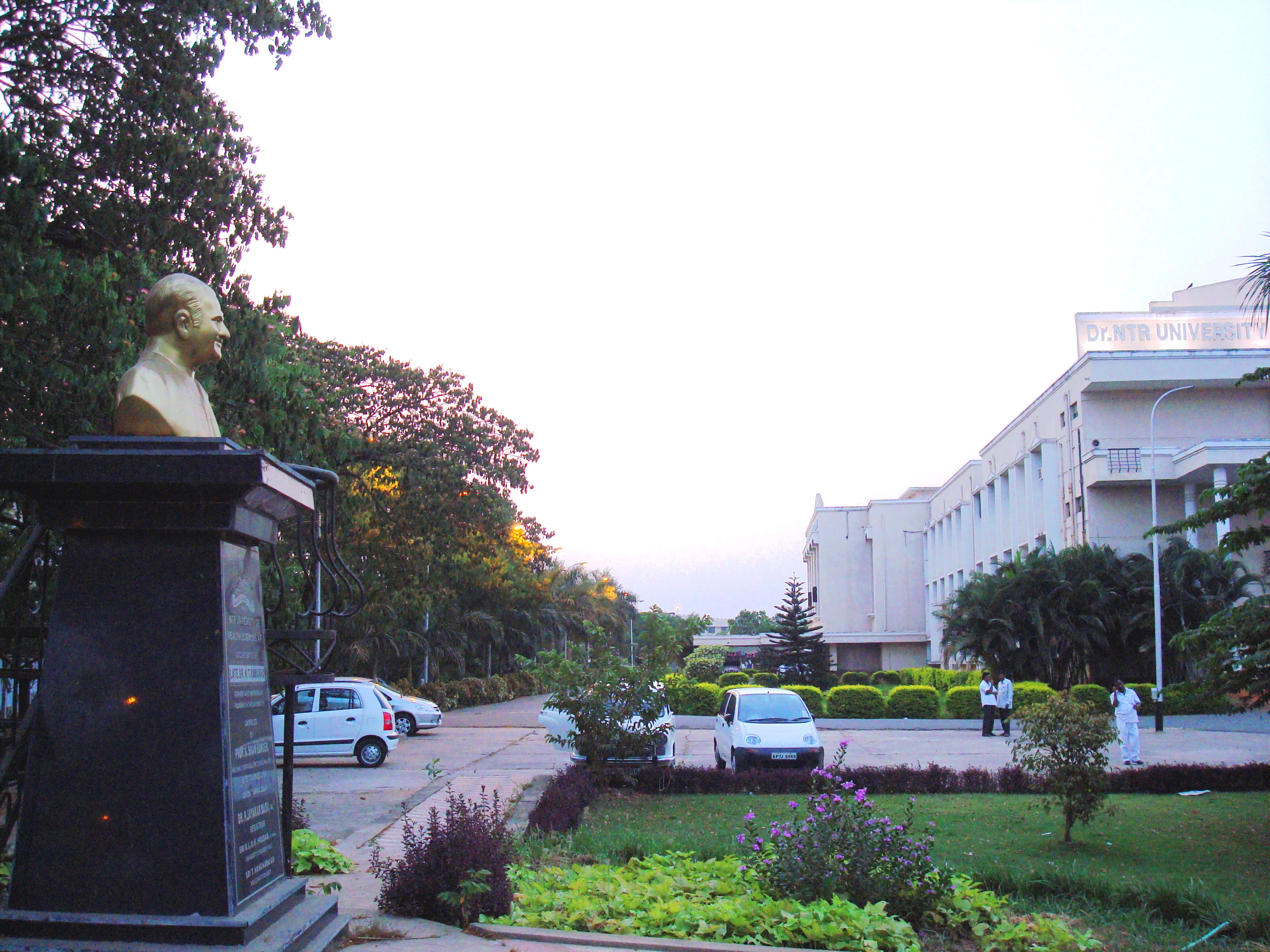 This image shows the NTR University, a premier medical institution in the city of vijayawada. selfphotographed.